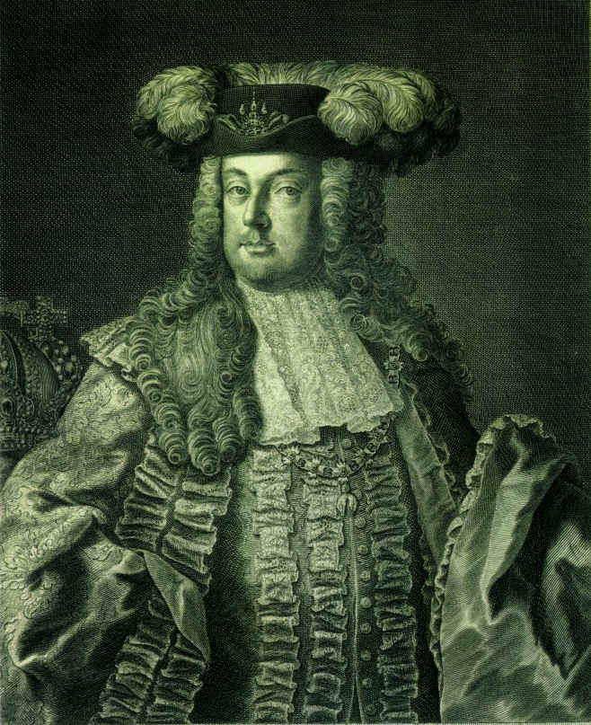 Francis I, Holy Roman Emperor (1708-1765)